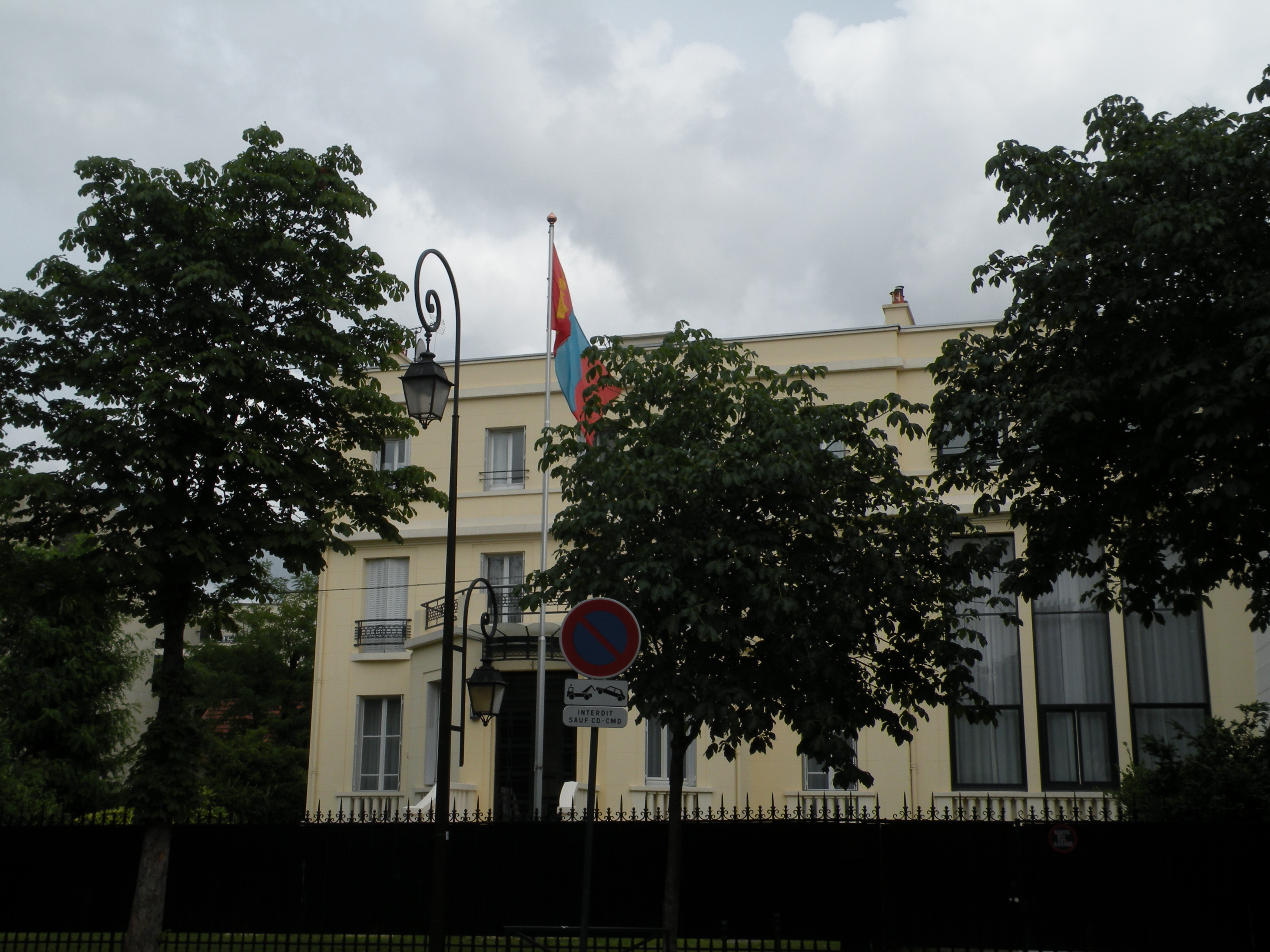 Mongolian embassy in France, Boulogne-Billancourt.